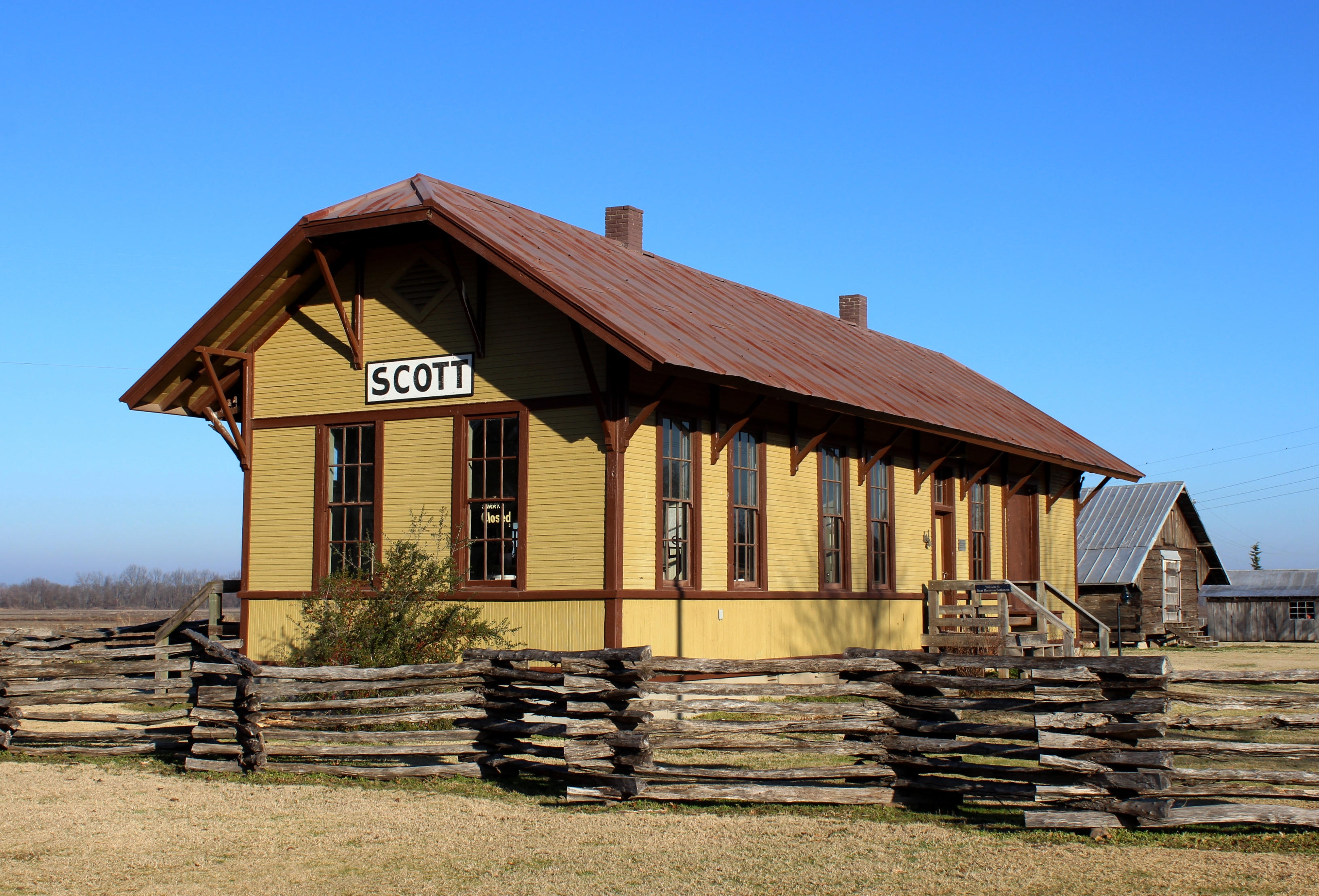 Train depot in Scott, Arkansas.